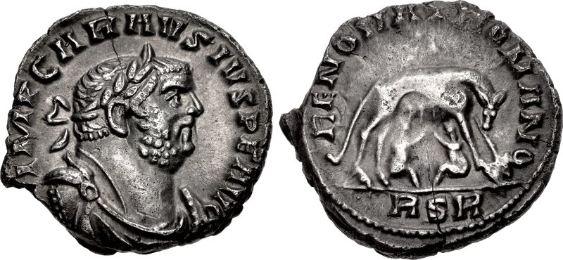 Silver denarius of Carausius (AD 286-93) (Reece Period 14). Obverse: IMP CARAVSIVS P F AVG, Laureate, draped and cuirassed right. Reverse: RENOVAT ROMANO, Wolf and twins. Mintmark: RIC V, pt 2, no. 571. This coin is included in Sam Moorhead's corpus for RIC. The Wolf and twins reverse is the most common reverse on Carausian denarii.